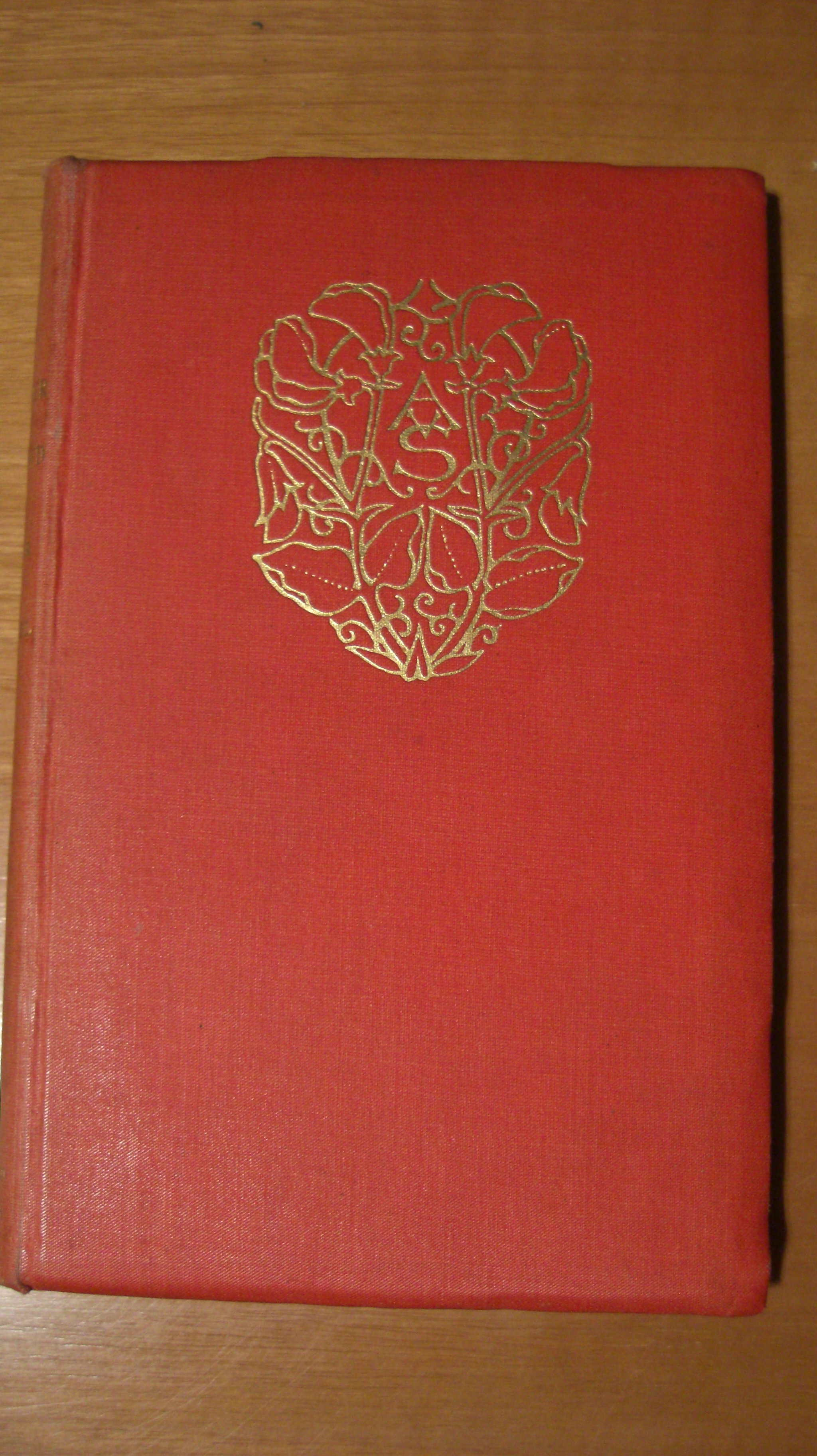 Eerste druk Zwerver verliefd